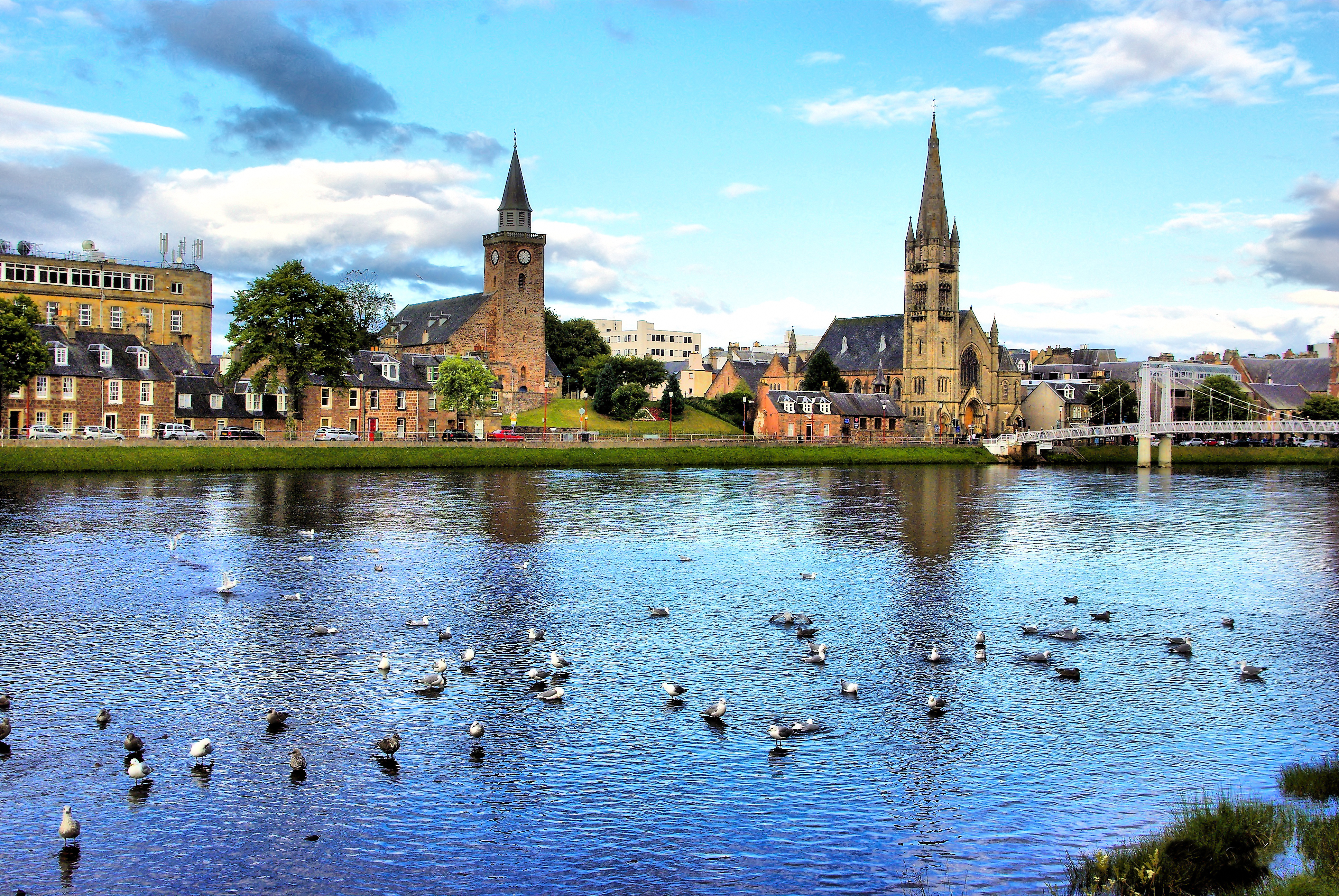 Inverness